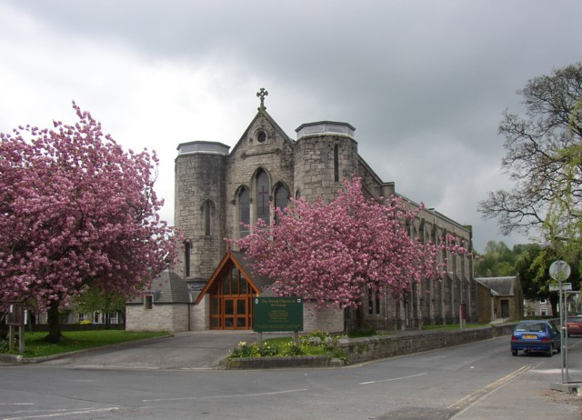 St George's Church, Castle Street, Kendal The main part of the church was built in 1839-41, designed by G. Webster. The chancel was added in a different style with stone of a different colour in1910-11, designed by Austin & Paley. The two thin polygonal towers of the west front are unusual. The nave is wide, without aisles. The porch and the small buildings that flank it are modern.